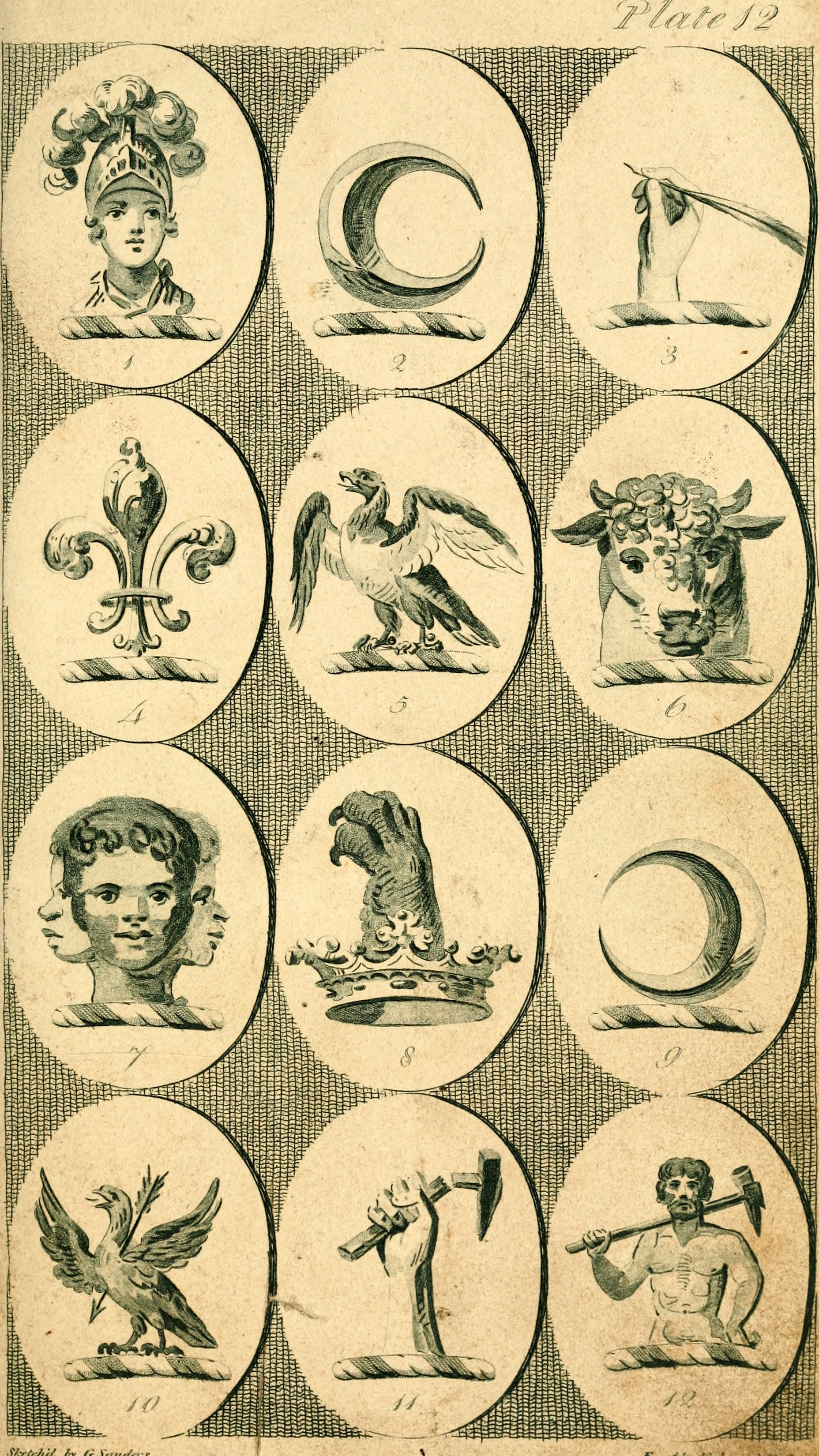 Title: British crests : containing the crests and mottos of the families of Great Britain and Ireland; together with those of the principal cities; and a glossary of heraldic terms Year: 1817 (1810s) Authors: Deuchar, Alexander Subjects: Heraldry Publisher: Edinburgh : Kirkwood & Son Text Appearing Before Image: £.,.-fyA,^. , Text Appearing After Image: Fiaii